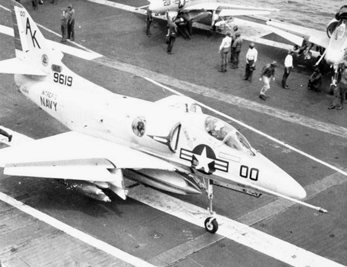 A U.S. Navy Douglas A-4C Skyhawk (BuNo 149619) from Attack Squadron 15 (VA-15) "Valions" aboard the aircraft carrier USS Intrepid (CVS-10). VA-15 was assigned to Attack Carrier Air Wing 10 (CVW-10) aboard the Intrepid for a deployment to Vietnam from 11 May to 30 December 1967. This aircraft was also to personal aircraft of the Commander, Air Group (CAG) of CVW-10, Commander Kenneth A. Burrows. It was shot down on 4 October 1967 by ground fire 2 km north of Haiphong, Vietnam. The pilot, Lieutenant Commander P. V. Schoeffel, ejected, was captured and became a Prisoner of War.